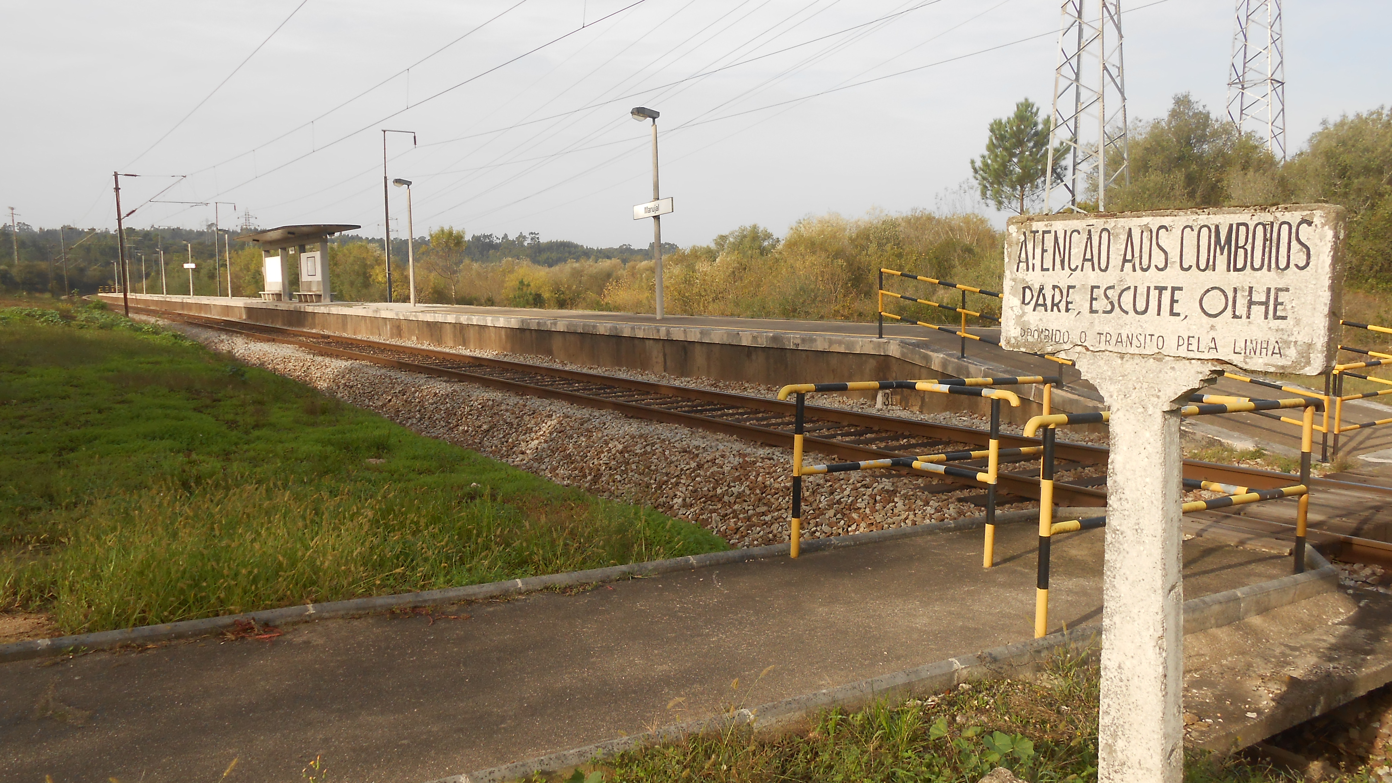 The Marujal halt in the former parish of Vila Nova da Barca.